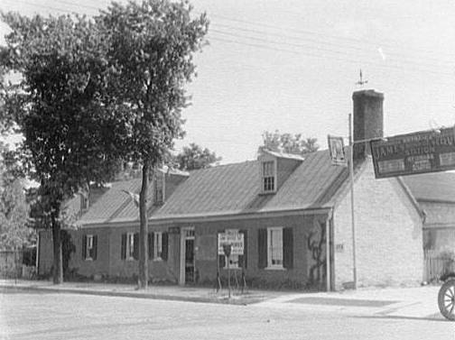 Law office of James Monroe, Fredericksburg, Virginia. Exterior of James Monroe's office.